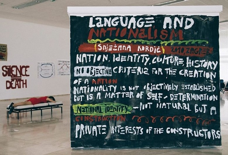 English version of the File:Chapter titles of the book Jezik i nacionalizam.jpegHeight: 200 cm (78.7 ″); Width: 200 cm (78.7 ″) dimensions QS:P2048,200U174728;P2049,200U174728